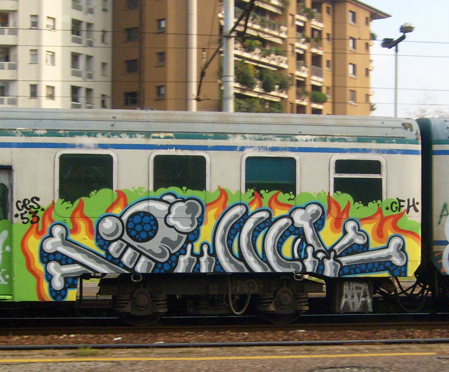 Graffiti art on train by Ces53 2009